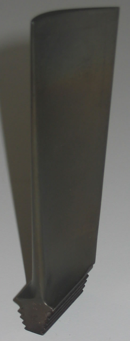 Used blade of a General Electric J79 aero engine of a Lockheed F-104 "Starfighter"